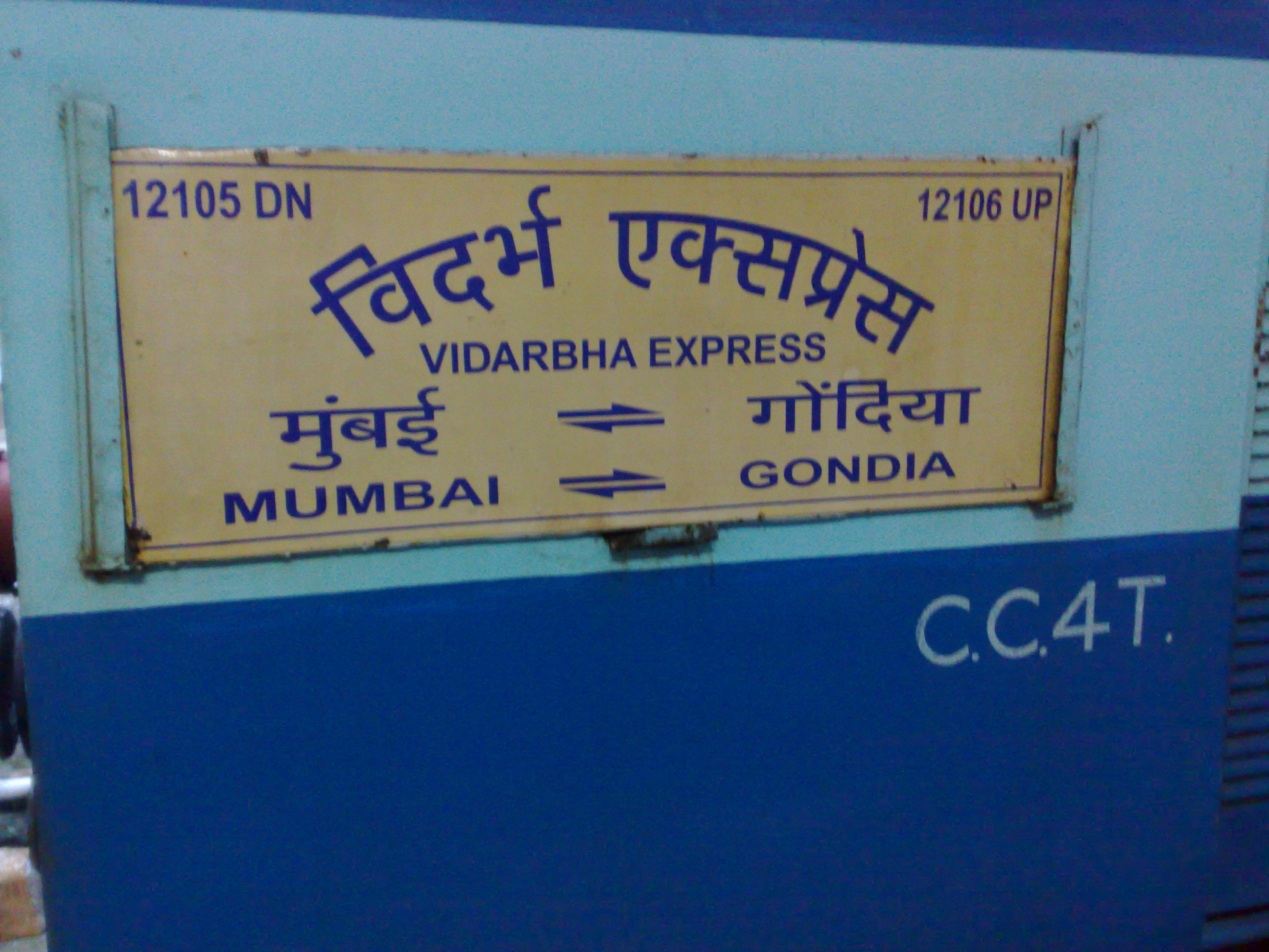 12105 Vidarbha Express trainboard